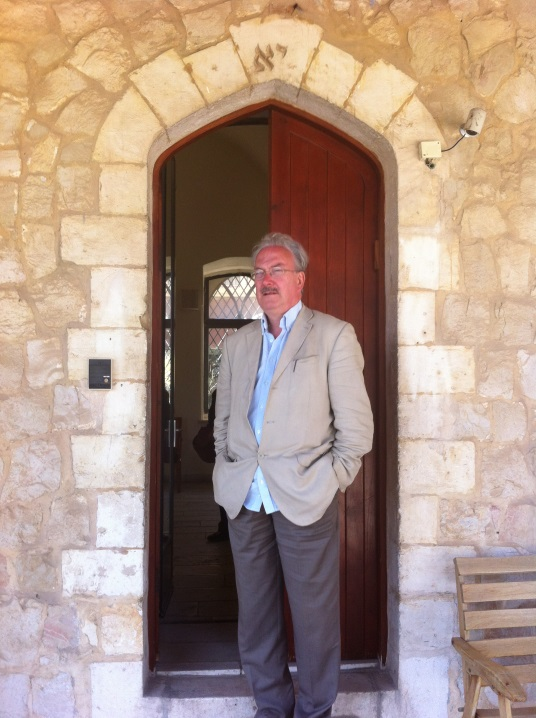 Seamus Finnegan in Mishkenot Shananim, Jerusalum 2012